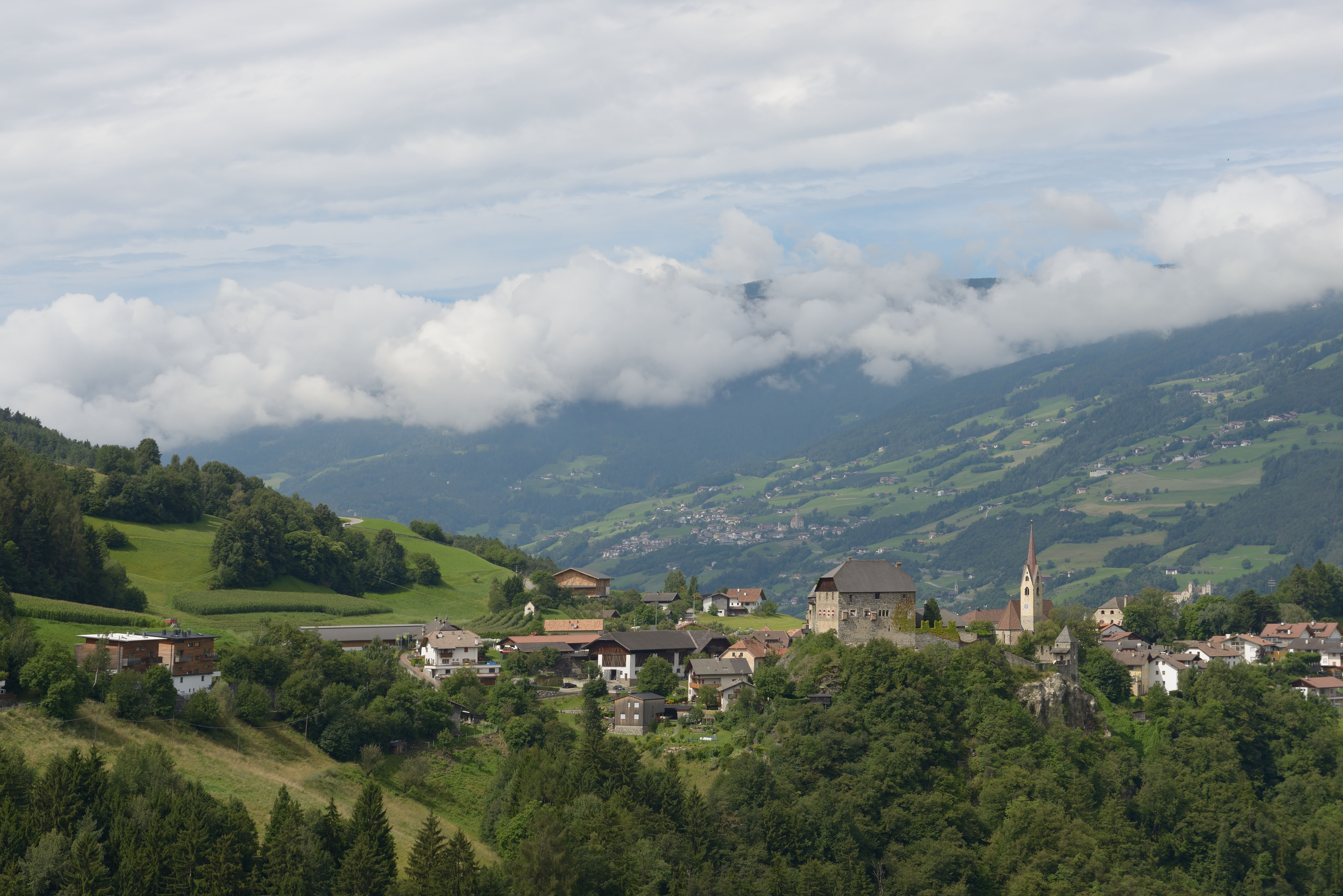 Hamlet Gufidaun as seen from the Brunnerhof farmhouse in Naven, South Tyrol.